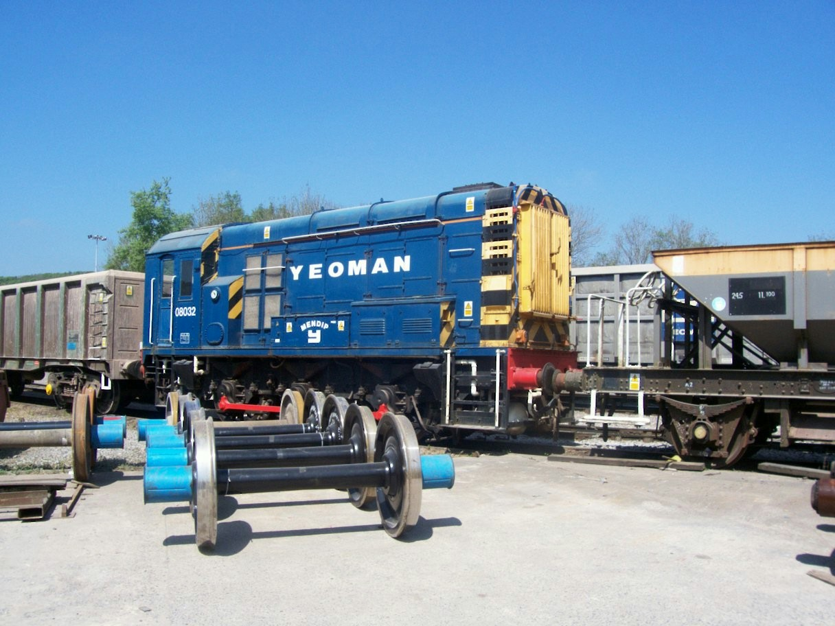 08032 resting at Merehead Quarry on the en:5th May en:2007, this loco is owned by Foster Yeoman